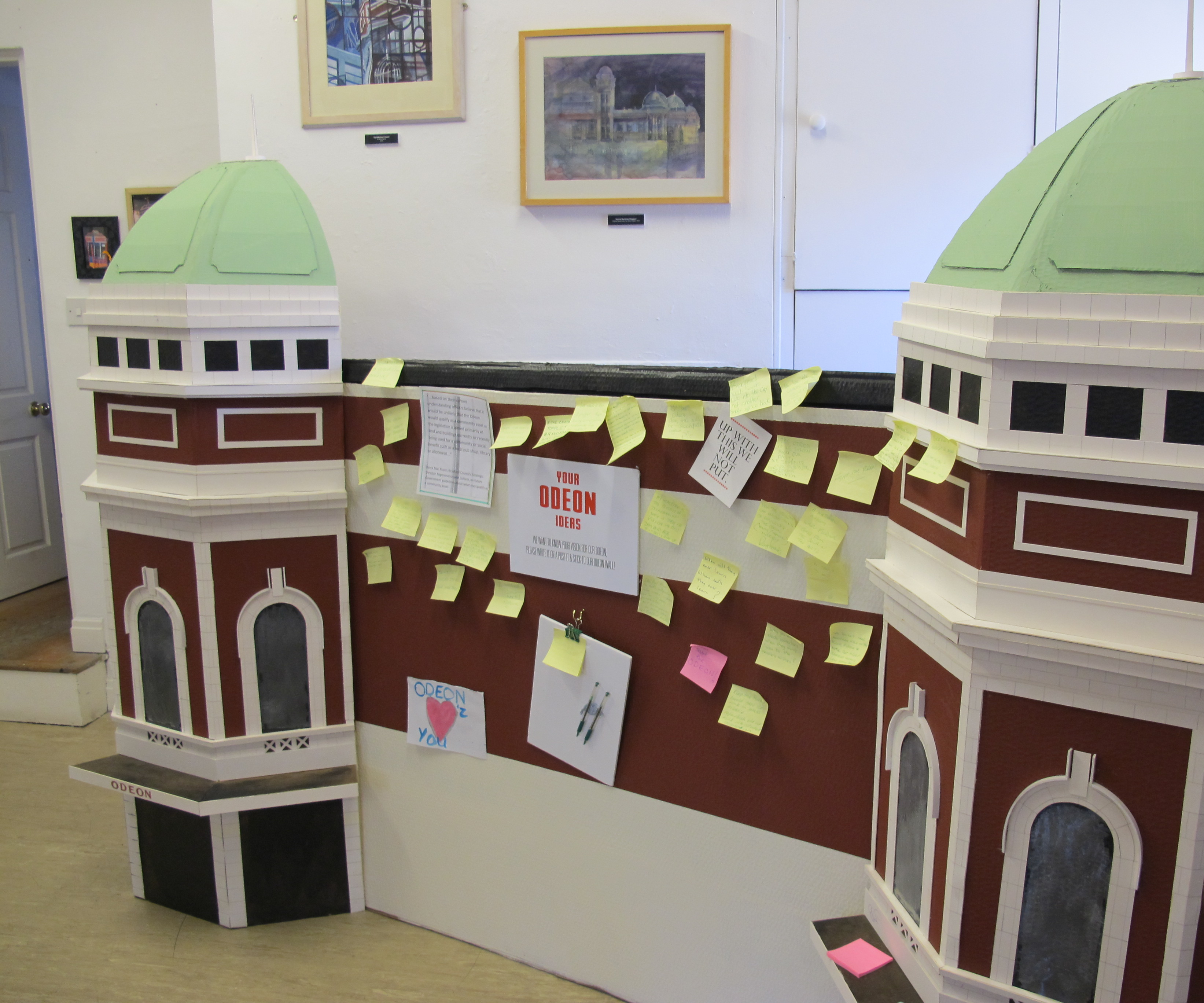 Scale model of part of the New Victoria, Bradford (now the Bradford Odeon) as part of "The Odeon Uncovered" exhibition at South Square Gallery in Thornton, West Yorkshire.